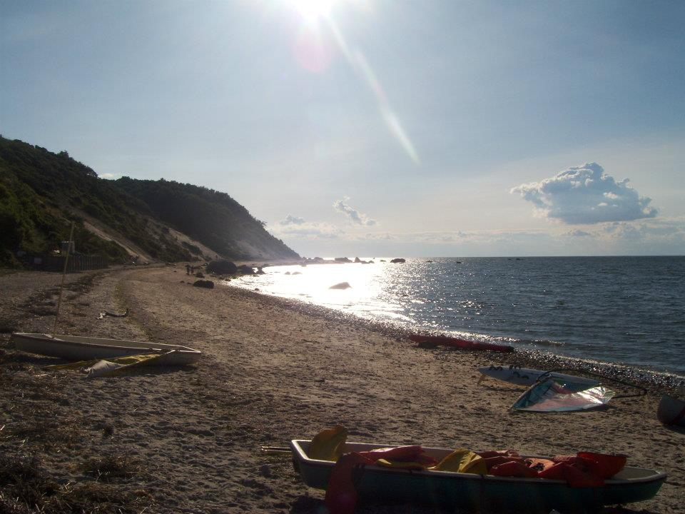 Beach at Baiting Hollow Scout Camp